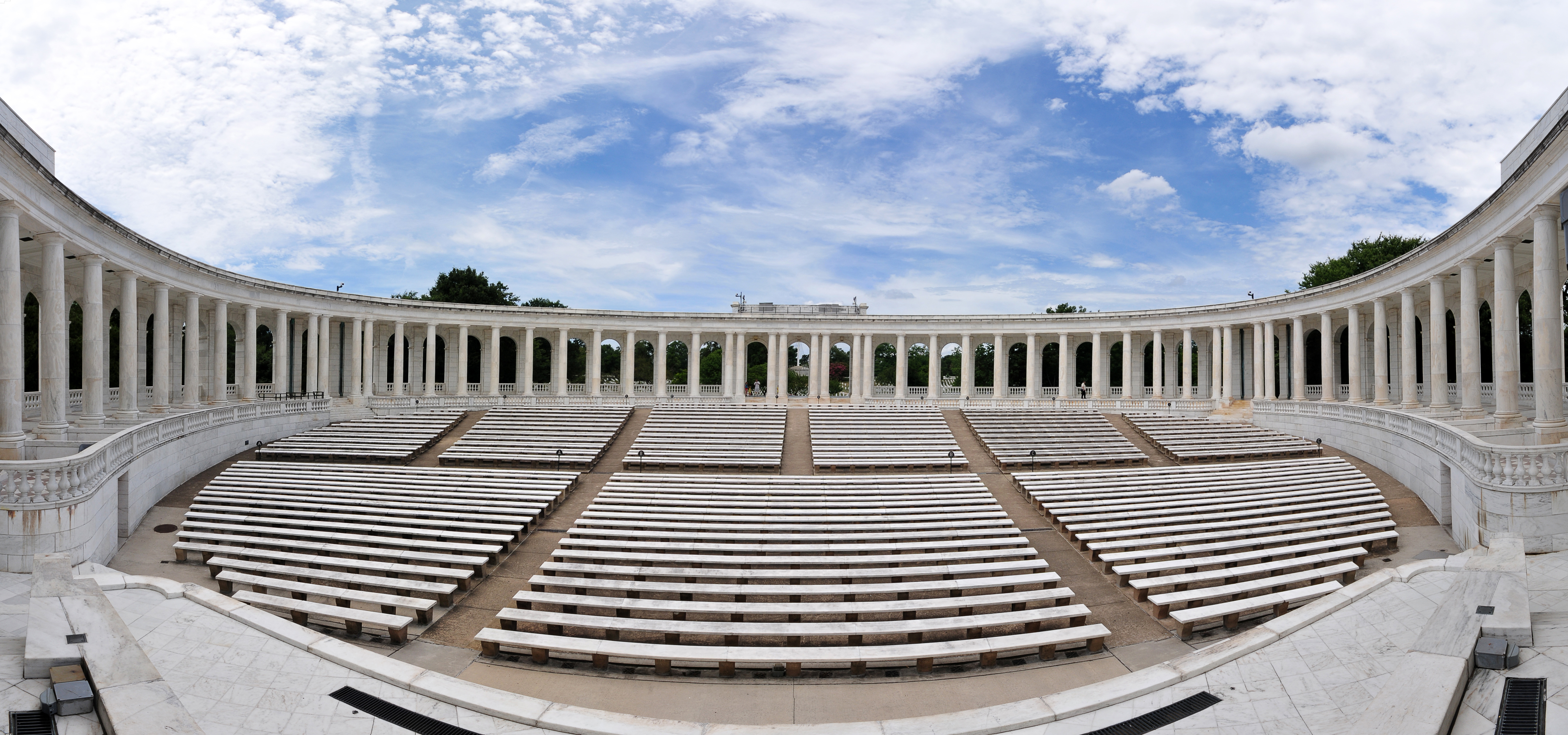 National cementery Arlington, VA - Amphitheater